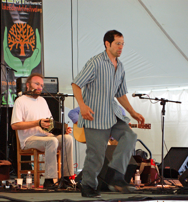 Dancer Ira Bernstein performing, accompanied by two musicians from the Irish group Buille: Niall Vallely is playing the concertina and Paul Meehan is playing the 6-string steel-string acoustic guitar. More information about Buille at Photo taken at the Lake Eden Arts Festival at Camp Rockmont, in Black Mountain, United States, with a a Nikon D50 digital camera.